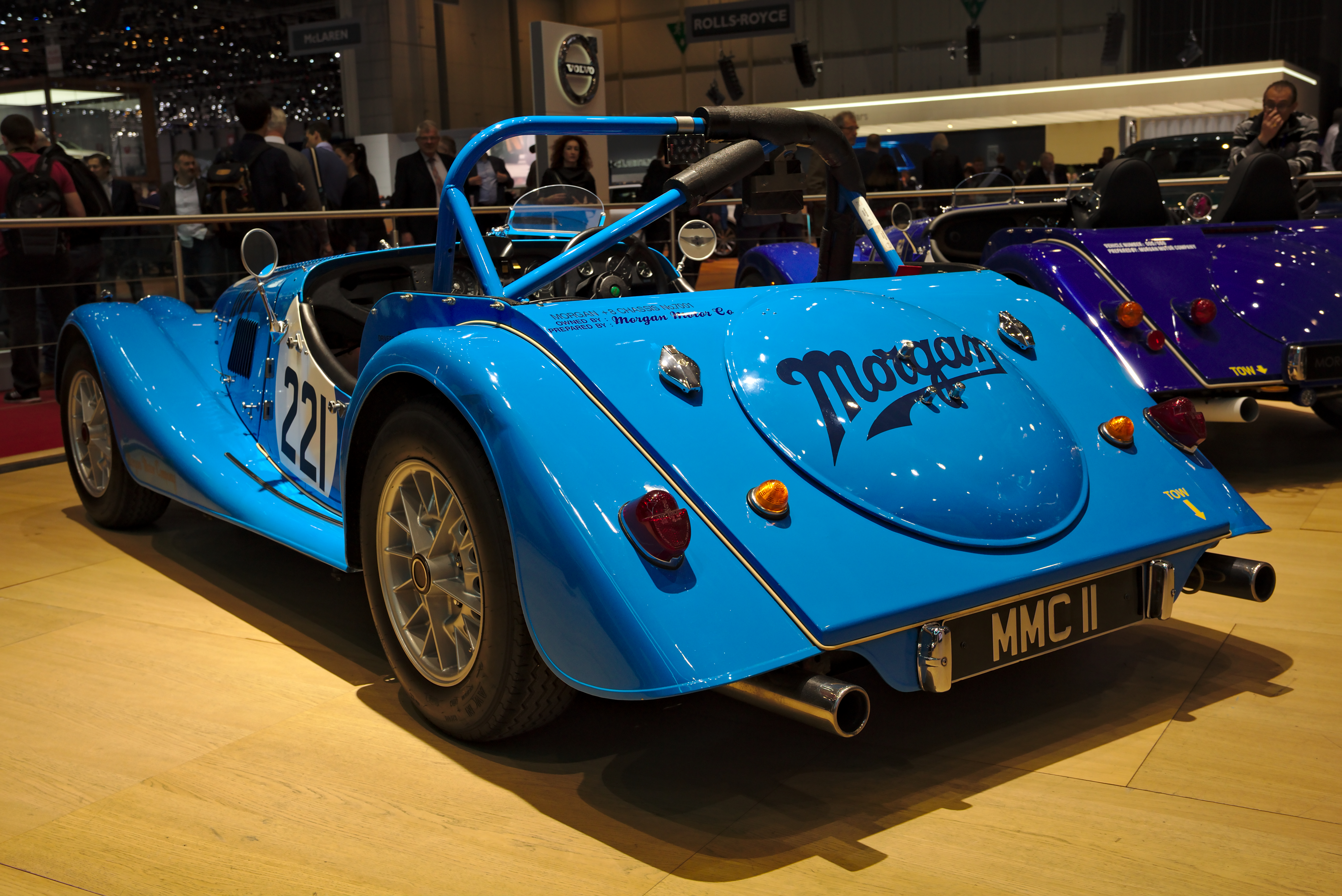 Morgan Plus 8 MMC11 at Geneva Motorshow 2018